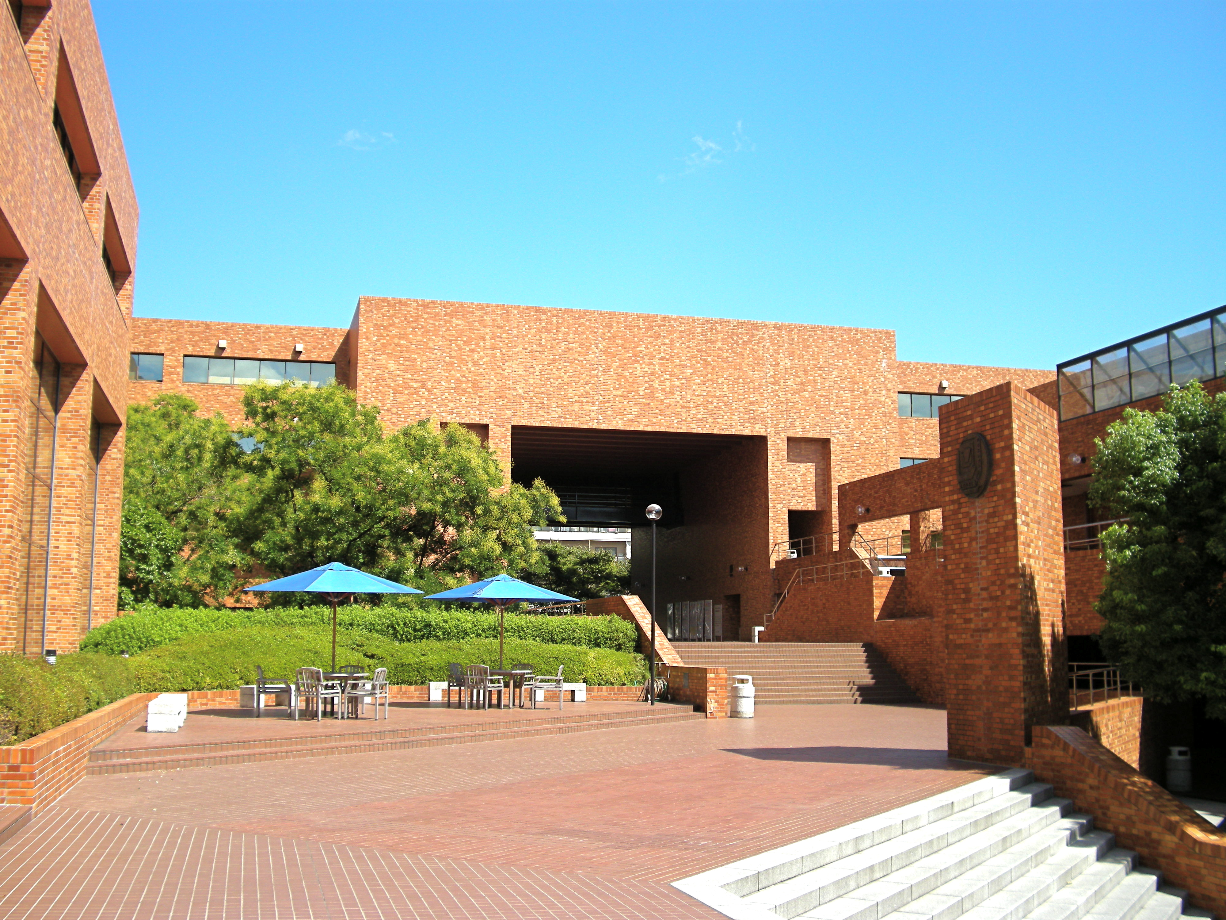 Clock Tower of Osaka Gakuin University (Osaka, Japan)